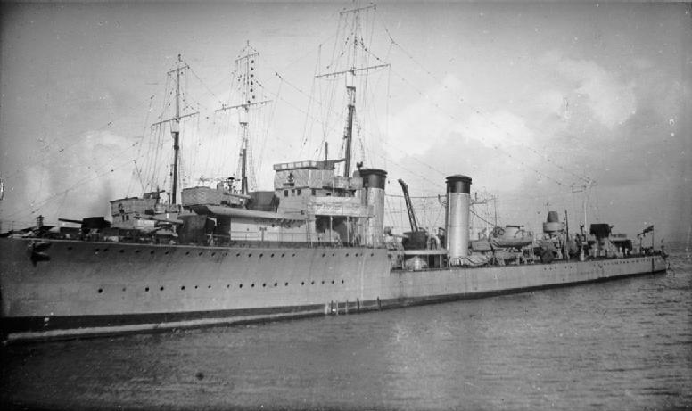 Photograph of British Admiralty type destroyer leader HMS Bruce.